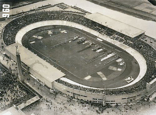 Aerial view of the (Amsterdam) Olympic Stadium during the opening of the Olympic Summer Games of 1928. Soccer game Netherlands - Uruguay (0-2), played on May 30, 1928 in the Stadium during the Olympic Games.taken from Dutch wikipedia Afbeelding:Olym_stadion.jpg, uploaded there by Gebruiker:Michiel1972.